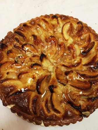 December 1, 2014 – Product Recall – Whole Foods Market West Hartford, Bishops Corner and Glastonbury Recall Tarte Aux Pommes Due to Undeclared Almonds. For additional information, please refer to the company issued press release available on FDA’s web site at